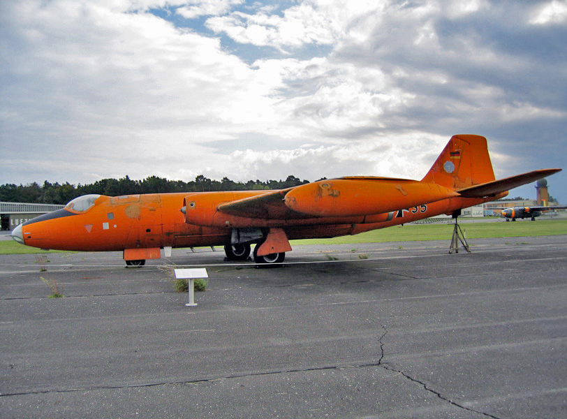 One of three English Electric Canberra B.2 (serial 99+35, c/n 66) operated by the West German Luftwaffe at the Luftwaffennuseum in Berlin-Gatow. The Canberras were used from 1966 to 1999 by the Luftwaffe.